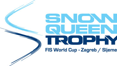 Logo of the "Snow Queen Trophy" alpine skiing slalom race at Zagreb/Sljeme, Croatia